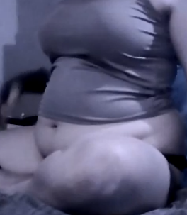 Excess abdominal fat in a 21 year old female.